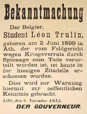 German public notice concerning the execution of a Belgian resistance fighter in Lille, France, in 1915 - translation: Announcement The Belgian student Léon Trulin, born June 2nd, 1899 in Ath, whom the field court has sentenced to death for treason by espionnage, has been shot today in the local citadel. This is made known to the public as a warning.